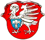 Coat of Arms of Eisingen